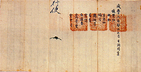 A kisaeng register, or gijeok, circa 1830. Stored in the Samcheok Municipal Museum in Samcheok. Image retrieved from [1]